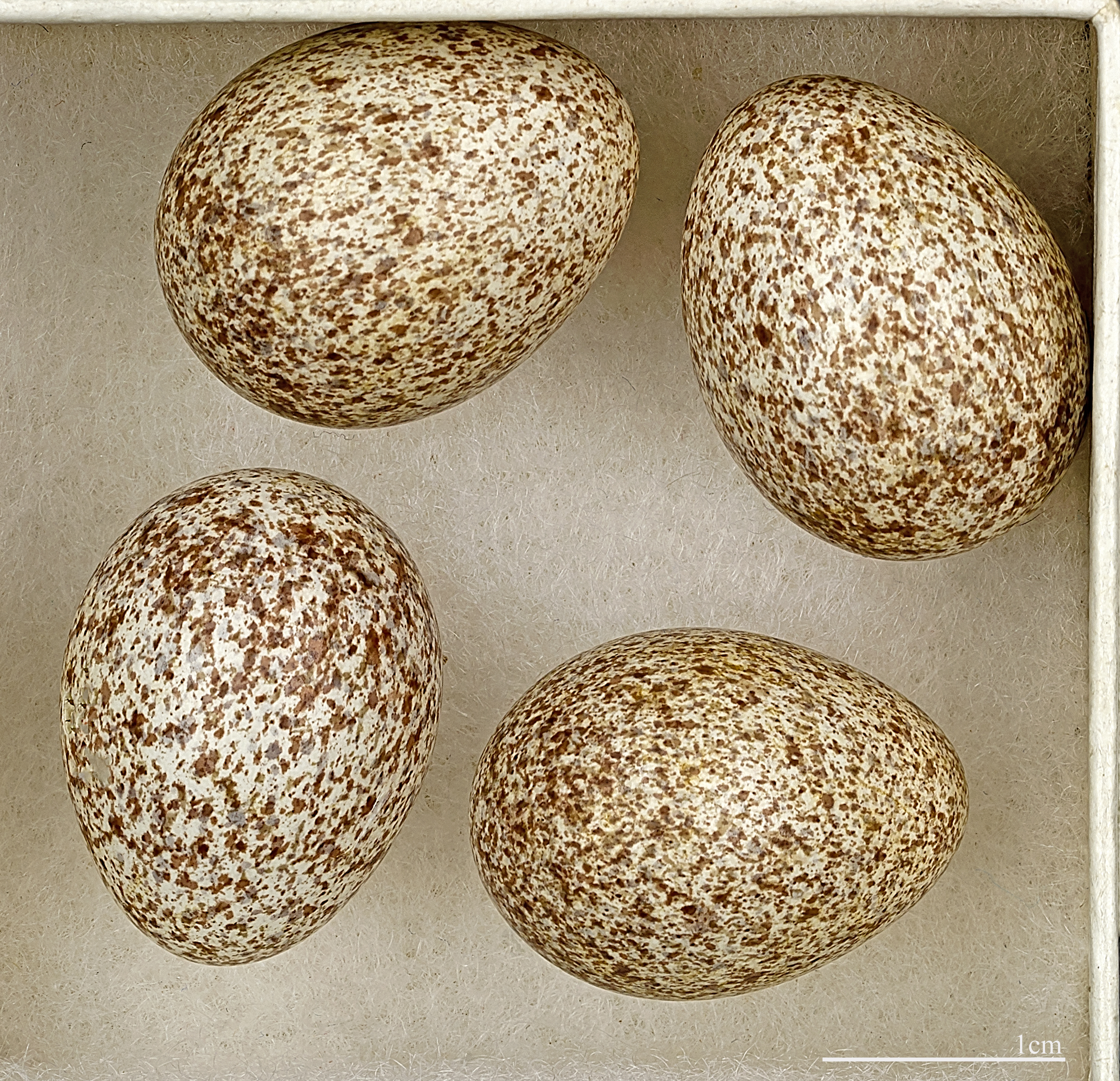 Egg of Woodlark. Collection of Jacques Perrin de Brichambaut.